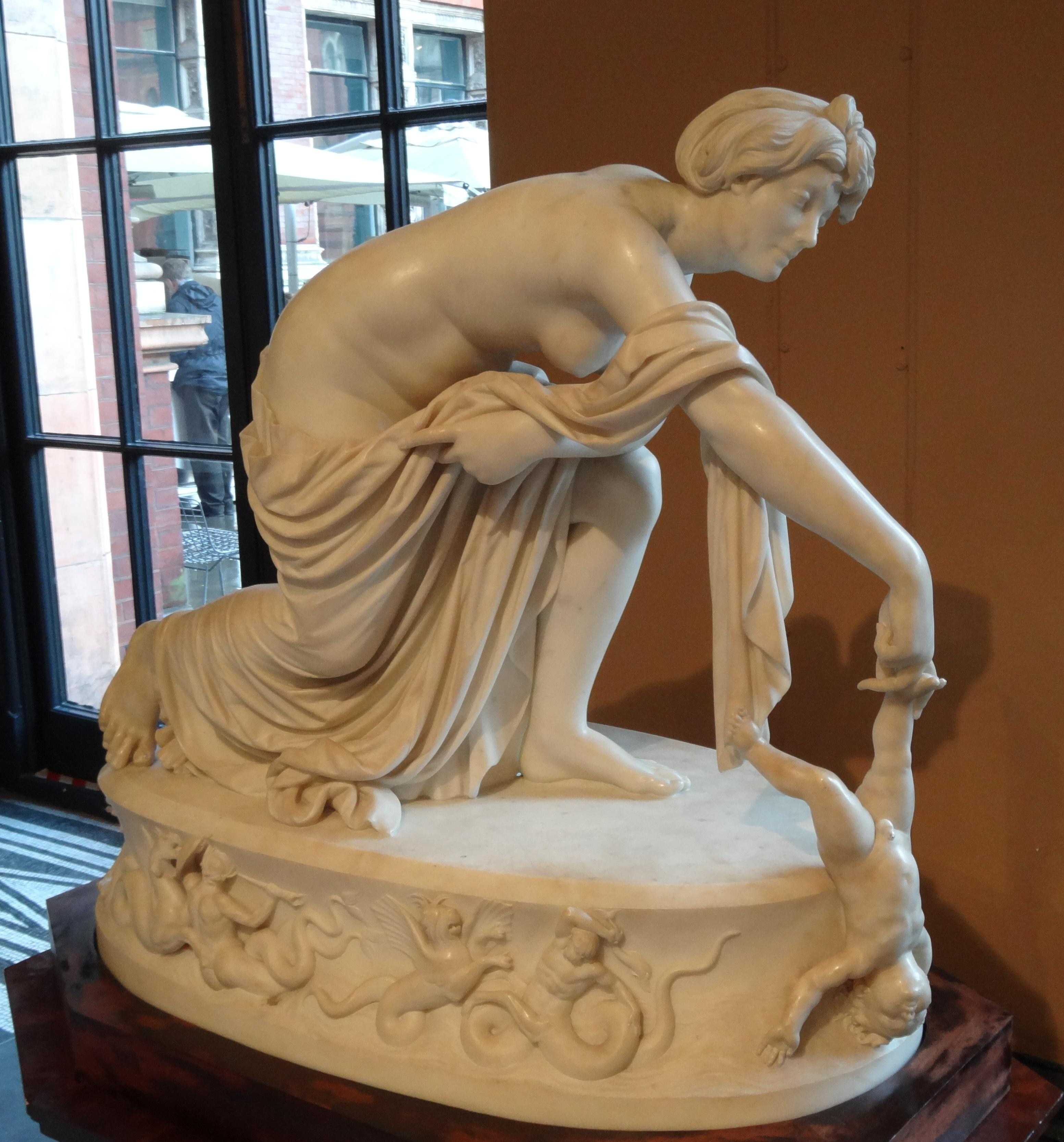 Thetis dipping Achilles in the River Styx a marble statue by Thomas Banks. With thanks to the V&A for allowing photography